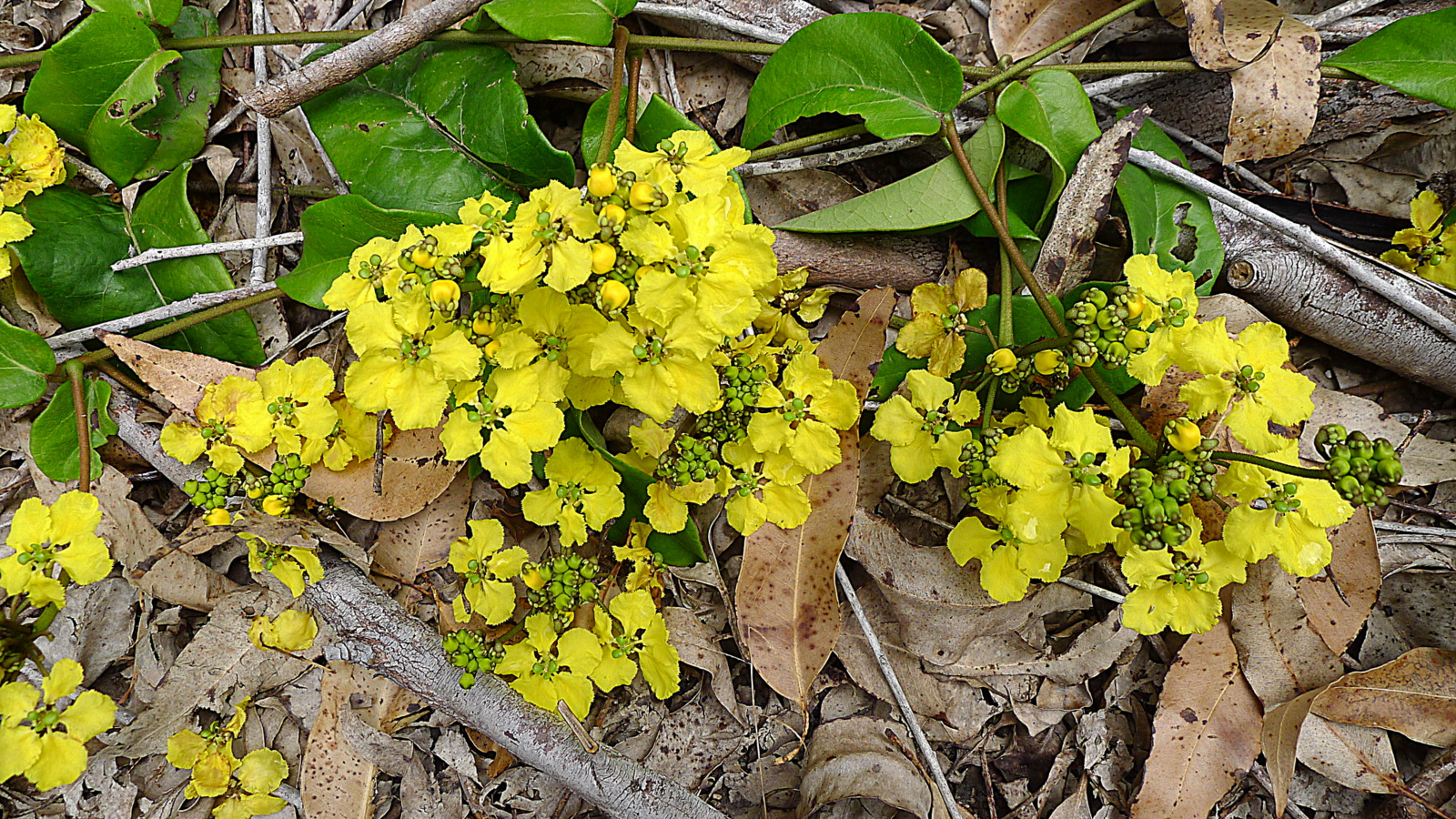 Stigmaphyllon blanchetii C. E. Anderson, Malpighiaceae, Atlantic forest, northeastern Bahia, Brazil Liana to 15 m. Popovkin 176, 191, 337 (HUEFS).